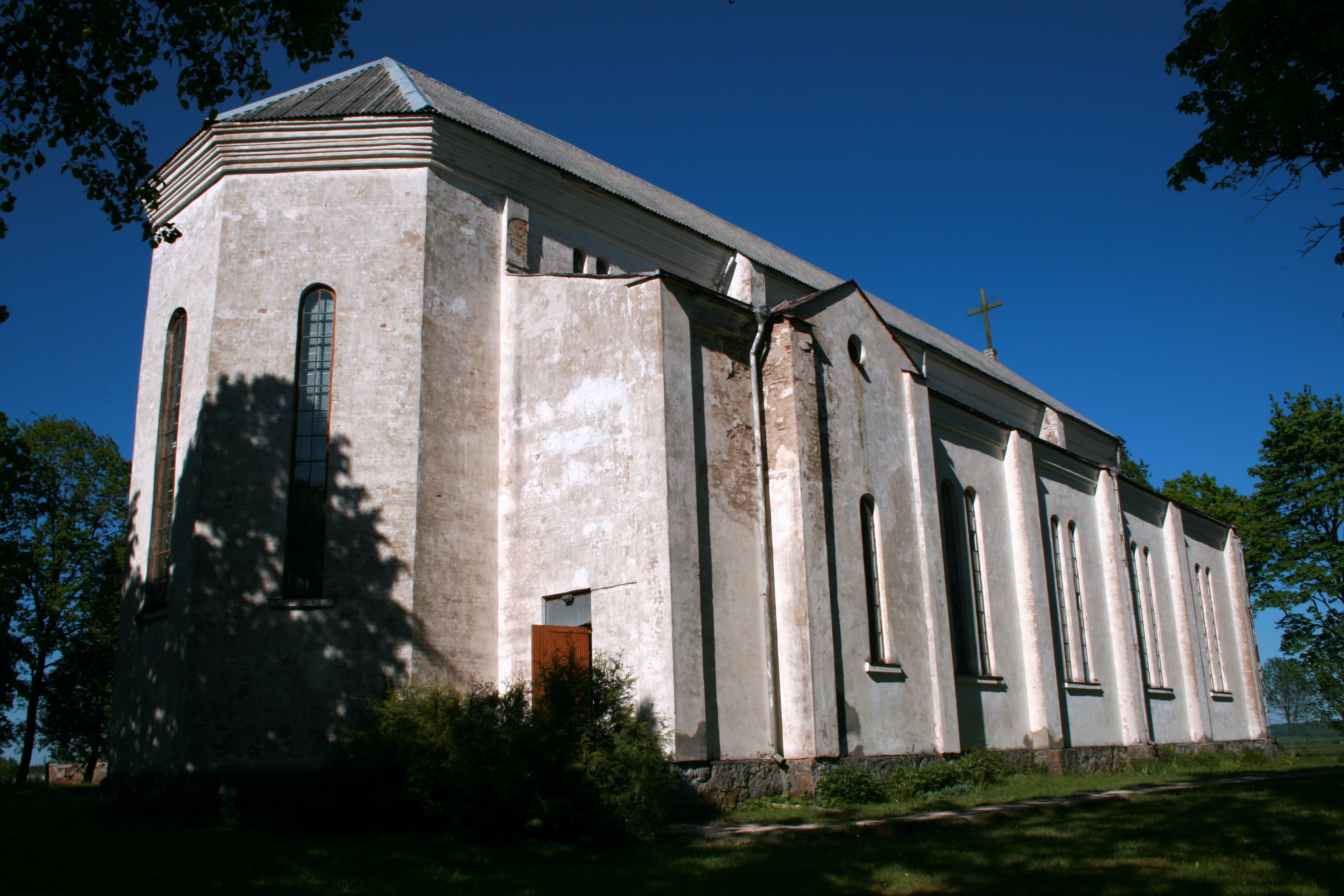 Saint John the Baptist Roman Catholic church in Gudenieki, Latvia